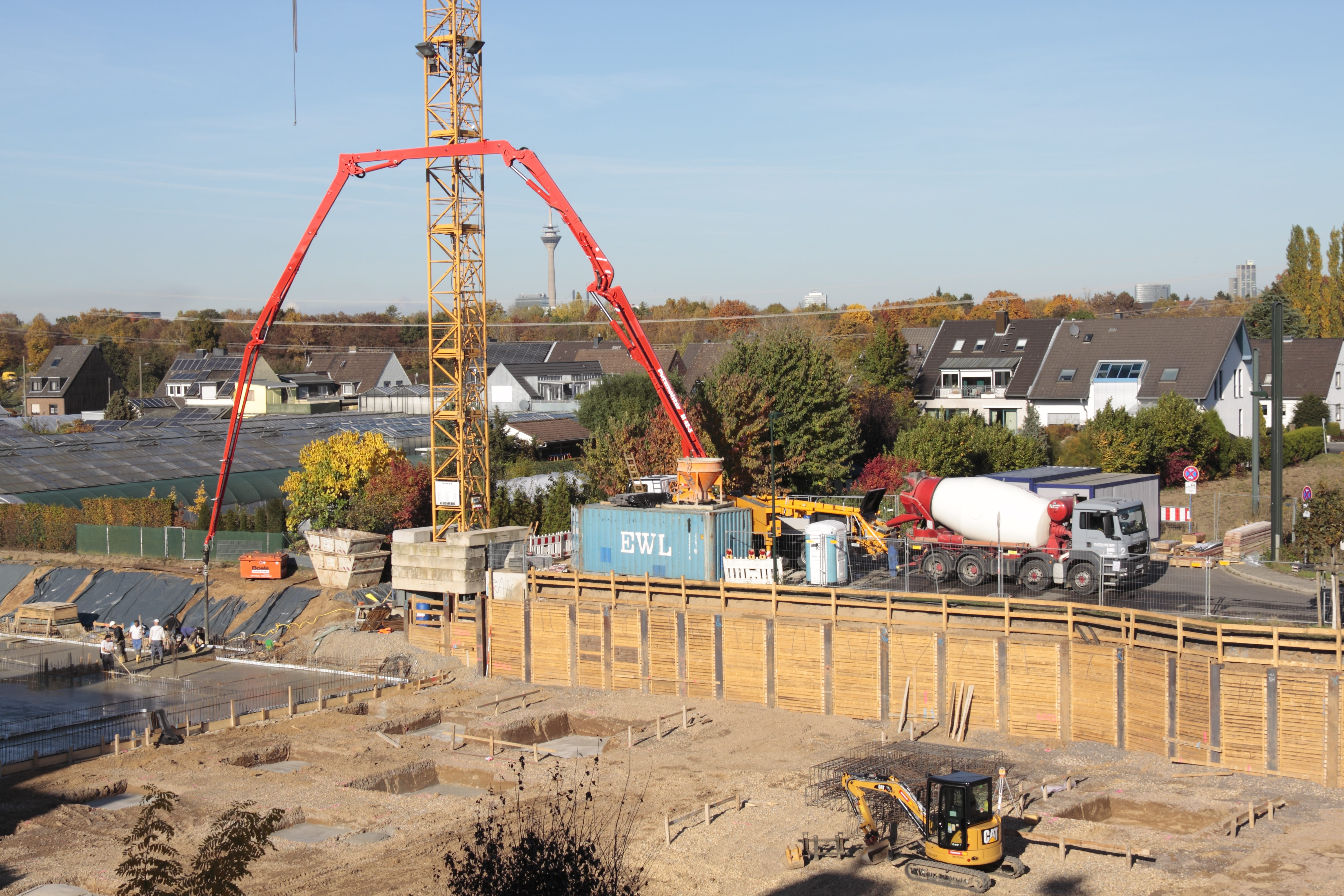 Construction site for apartment buildings at Dusseldorf-Volmerswerth. In the background: the Rheinturm (Rhine tower)